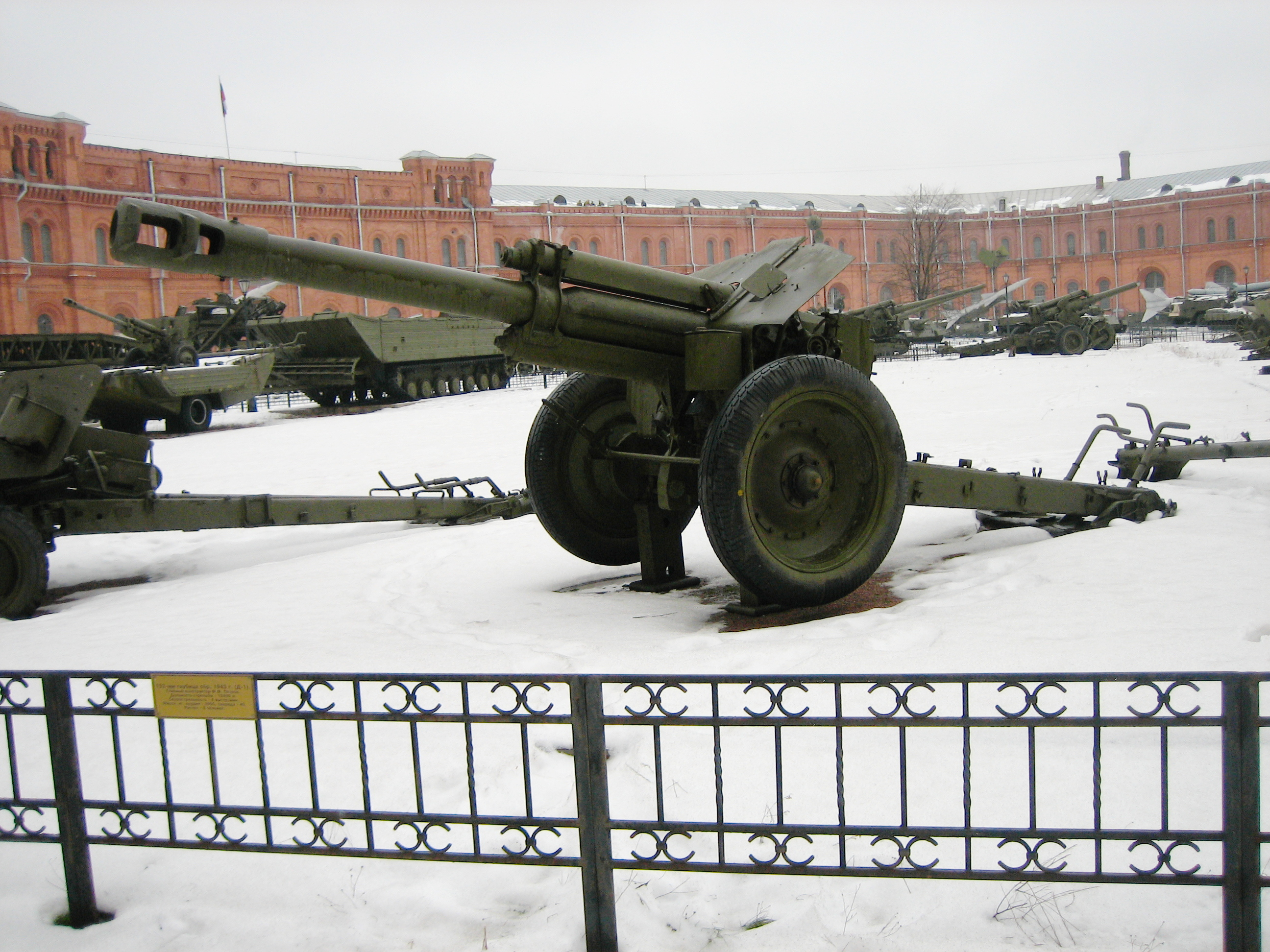 Soviet 152mm mm D-1 Mark 1943 howitzer, displayed in Saint Petersburg Artillery Museum. Photo taken on 3 Marсh, 2007. Source: Photo by me, User:Saiga20K.